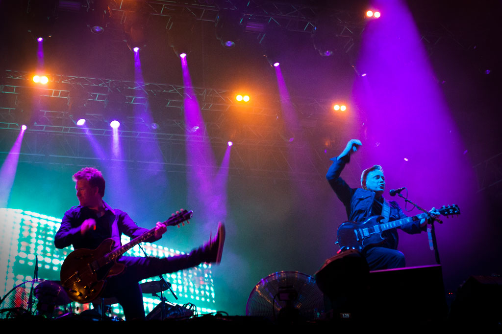 New Order, EXIT 2012.